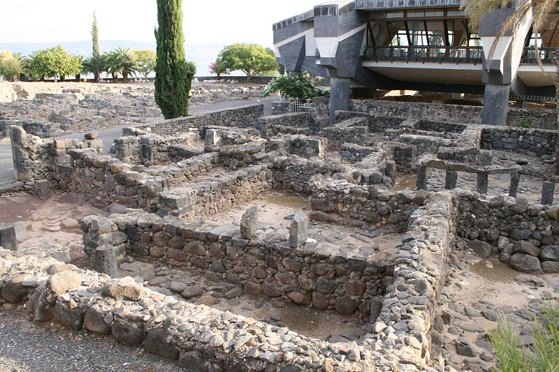 Ruins of Capernaum, Israel